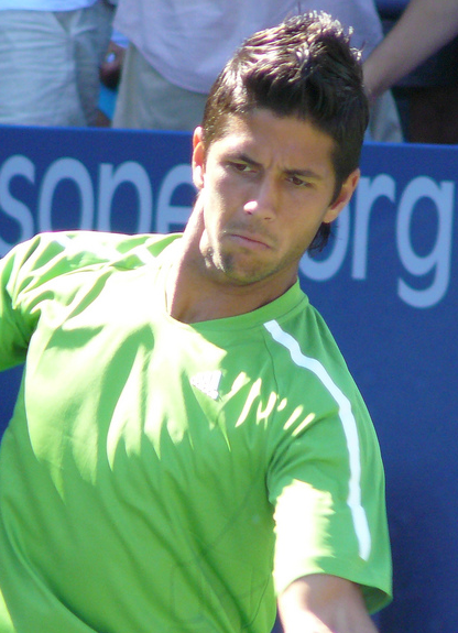 Spanish tennis player Fernando Verdasco in US Open 2008